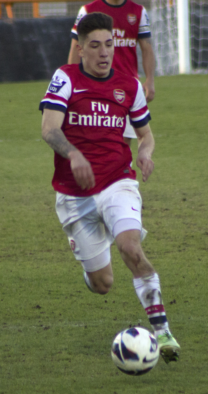 Hector Bellerin playing for Arsenal U-21